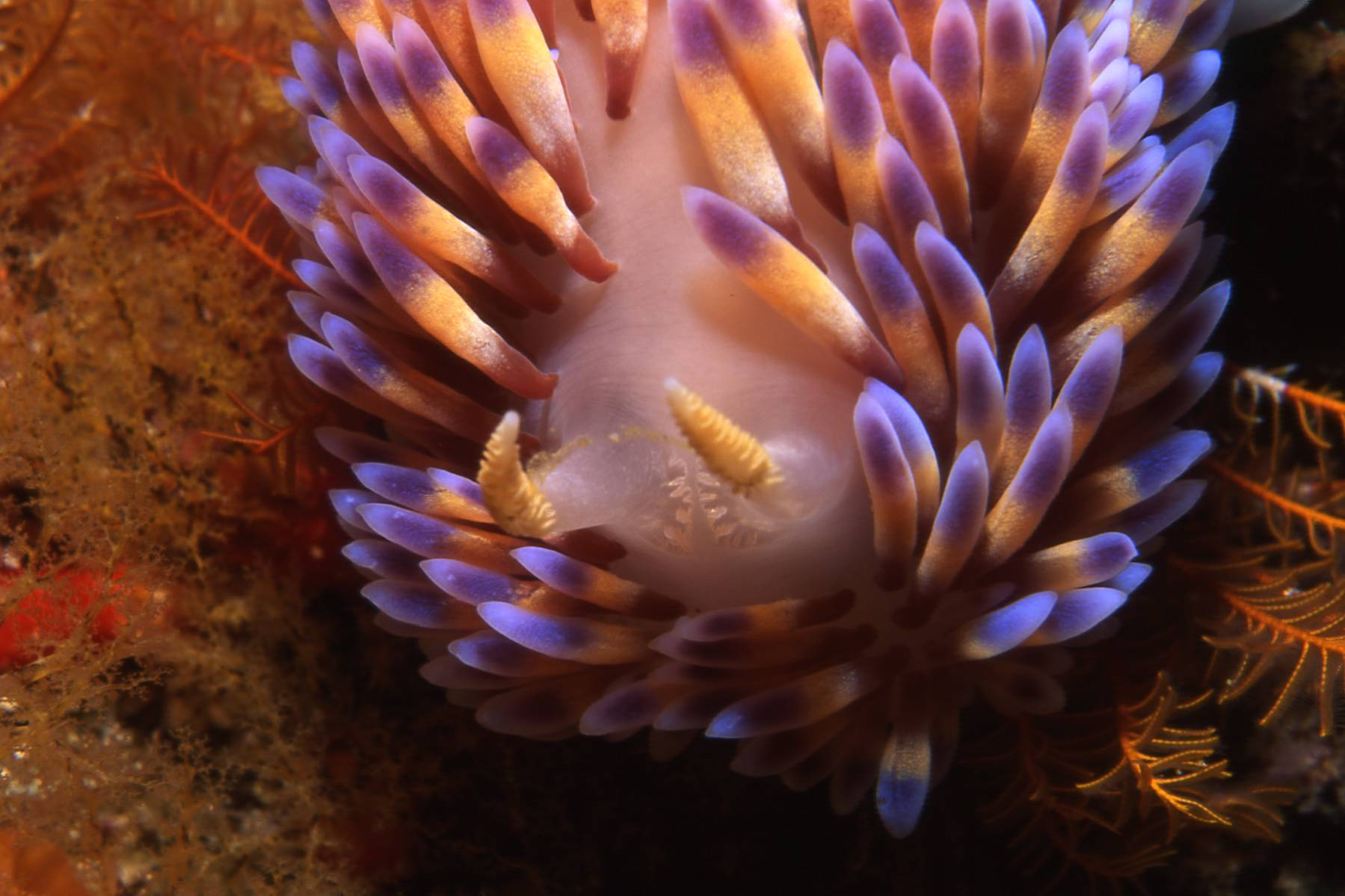 photograph of the rhinophores of the Gasflame nudibranch Janolus nakaza taken in 20m of water in False Bay off the South African coast using a Nikonos V camera